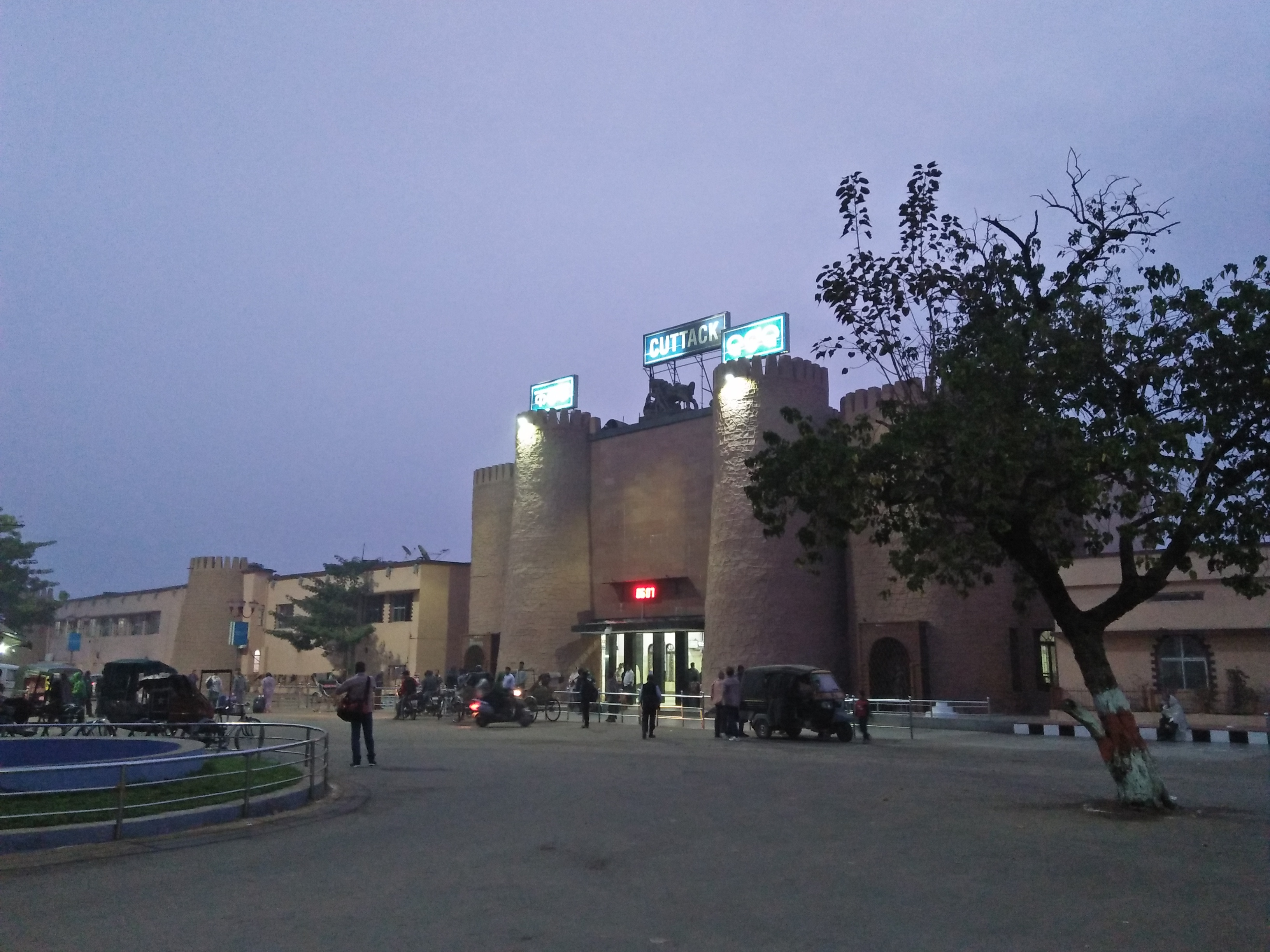 Photograph taken in Odisha.